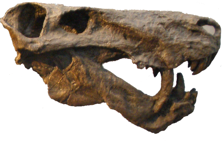 fossil of Inostrancevia alexandri, an extinct therapsid